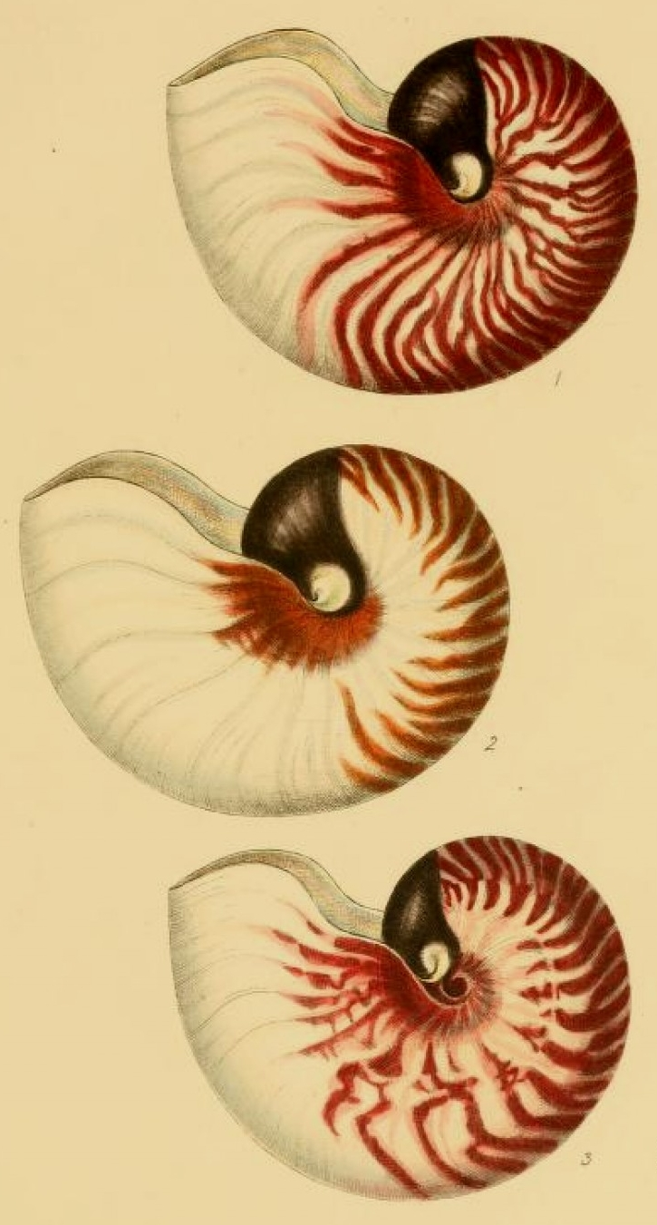 Illustrations of Nautilidae seashells taken from the book of G. B. Sowerby Thesaurus conchyliorum, or, Monographs of genera of shells (1847-1887).